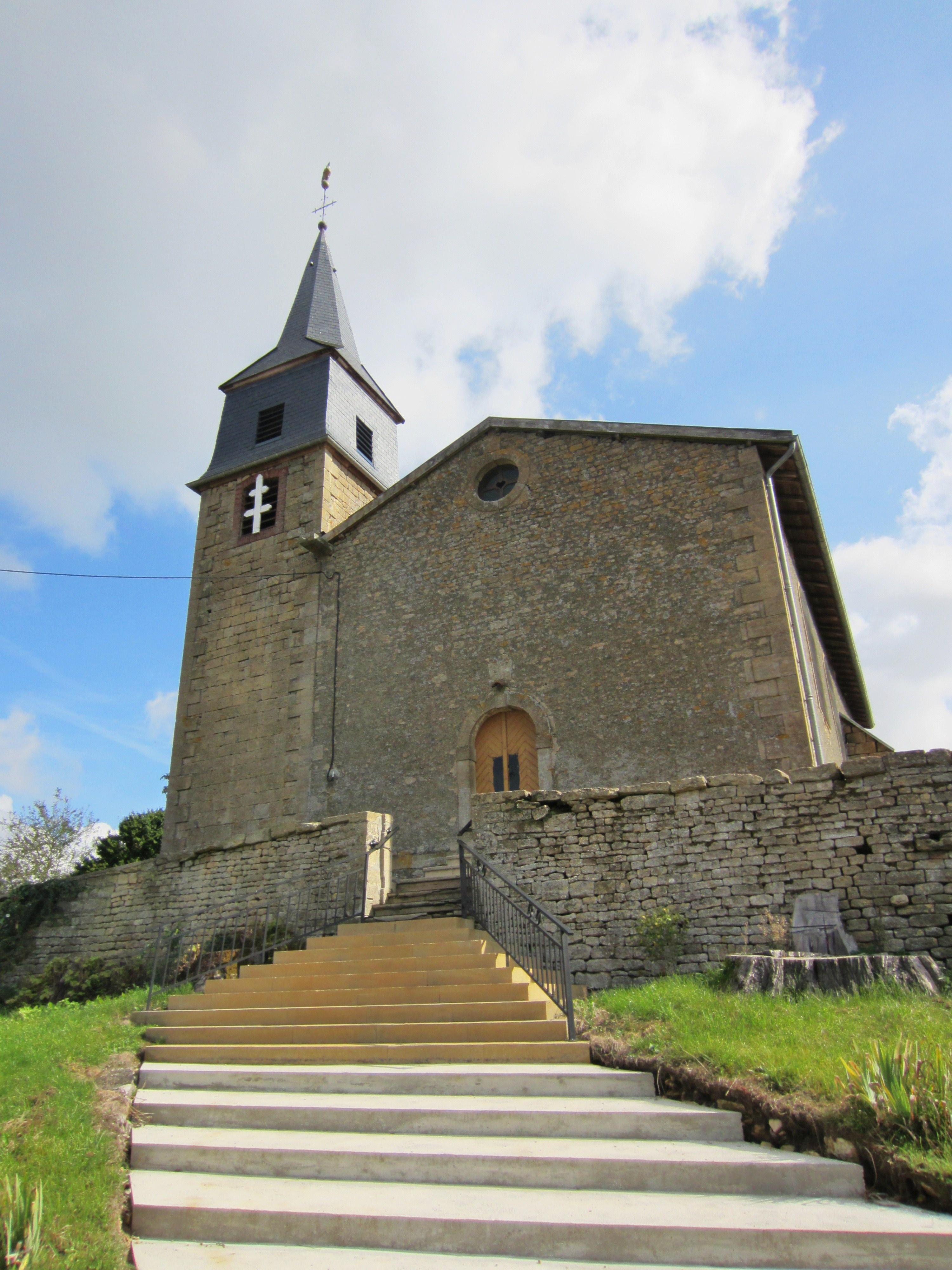 Description eglise Saint Supplet Date24 September 2011Sourcemon appareil photoAuthorAimelaimePermission (Reusing this file) eglise Saint Supplet